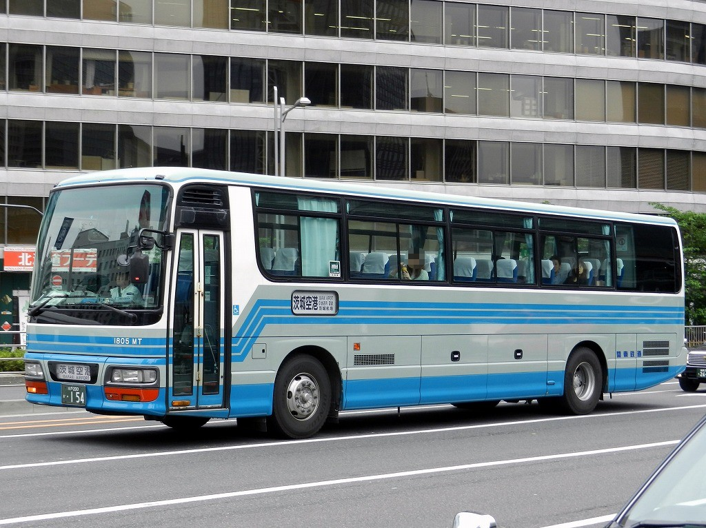 Kanto railway bus Isuzu Gala2000(KL-LV781R2) highwaybus "Tokyo-Ibaraki airport"